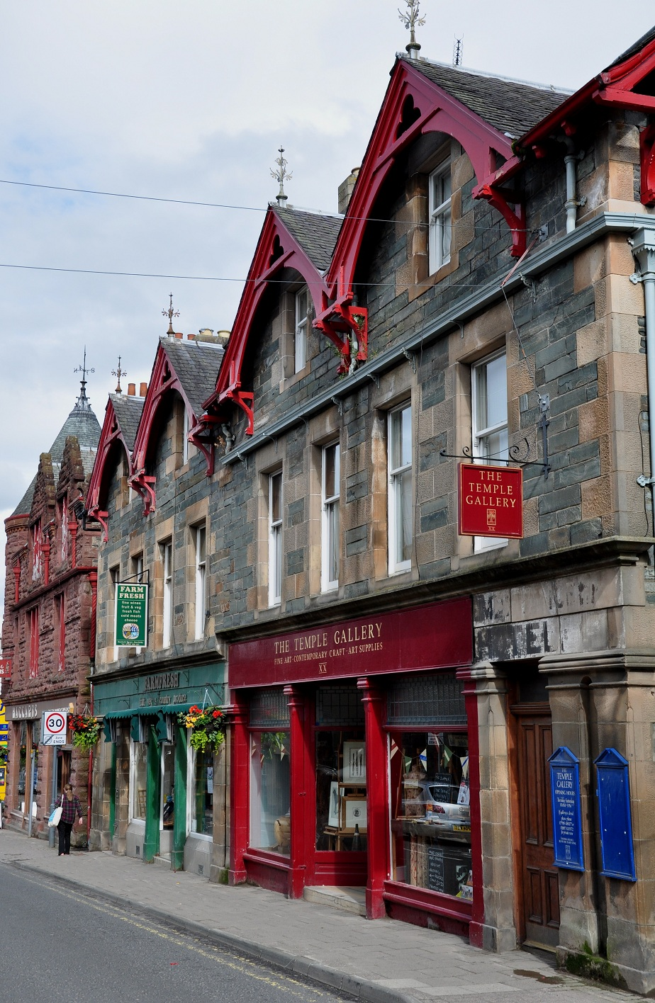 Dunkeld Street in Aberfeldy town centre, Perthshire, Scotland, United Kingdom